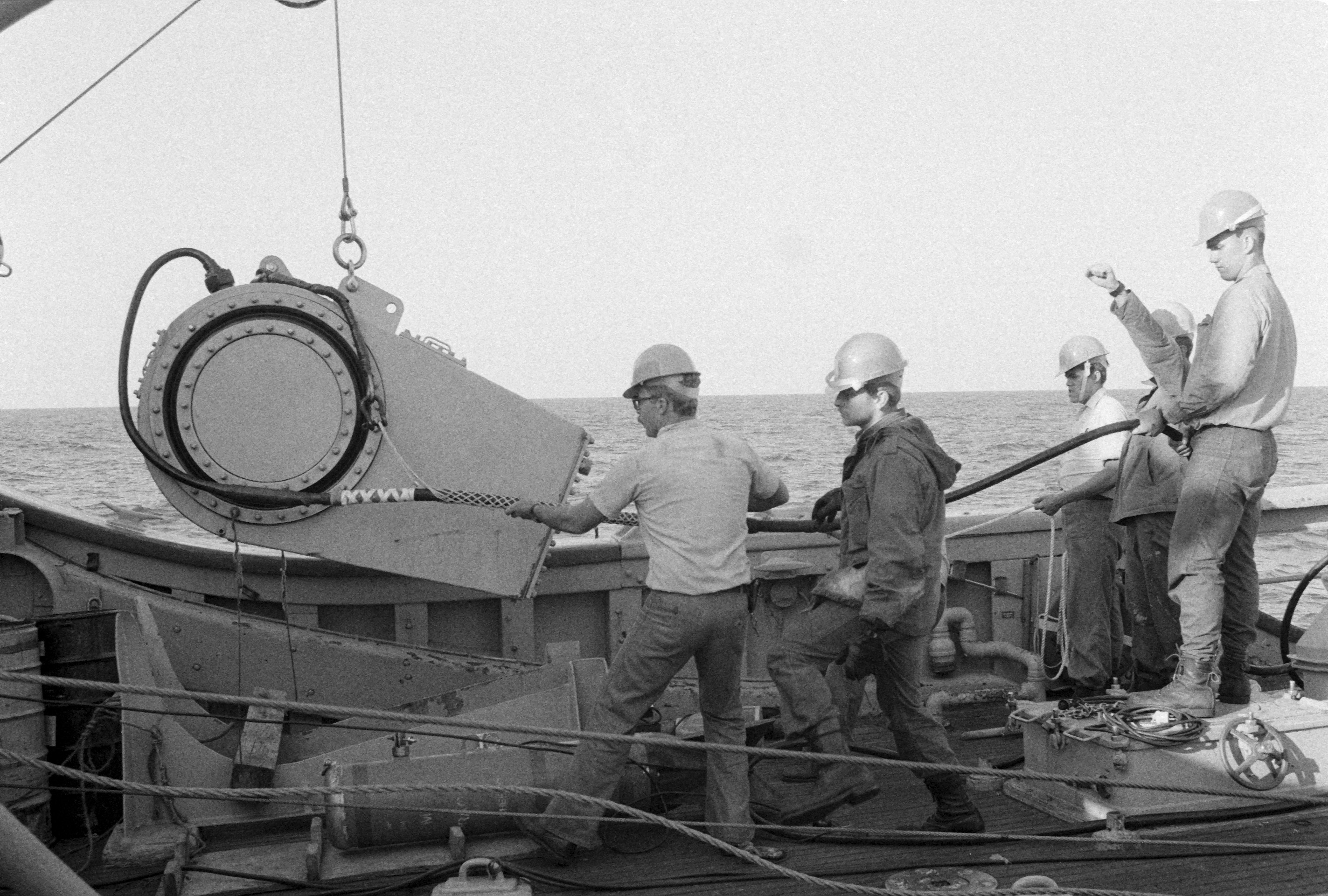 Crew members lower an acoustical device into the water from the ocean minesweeper USS ILLUSIVE (MSO 448) during a training exercise. The ILLUSIVE is one of three minesweepers being towed to the Persian Gulf to support US Navy escort operations.